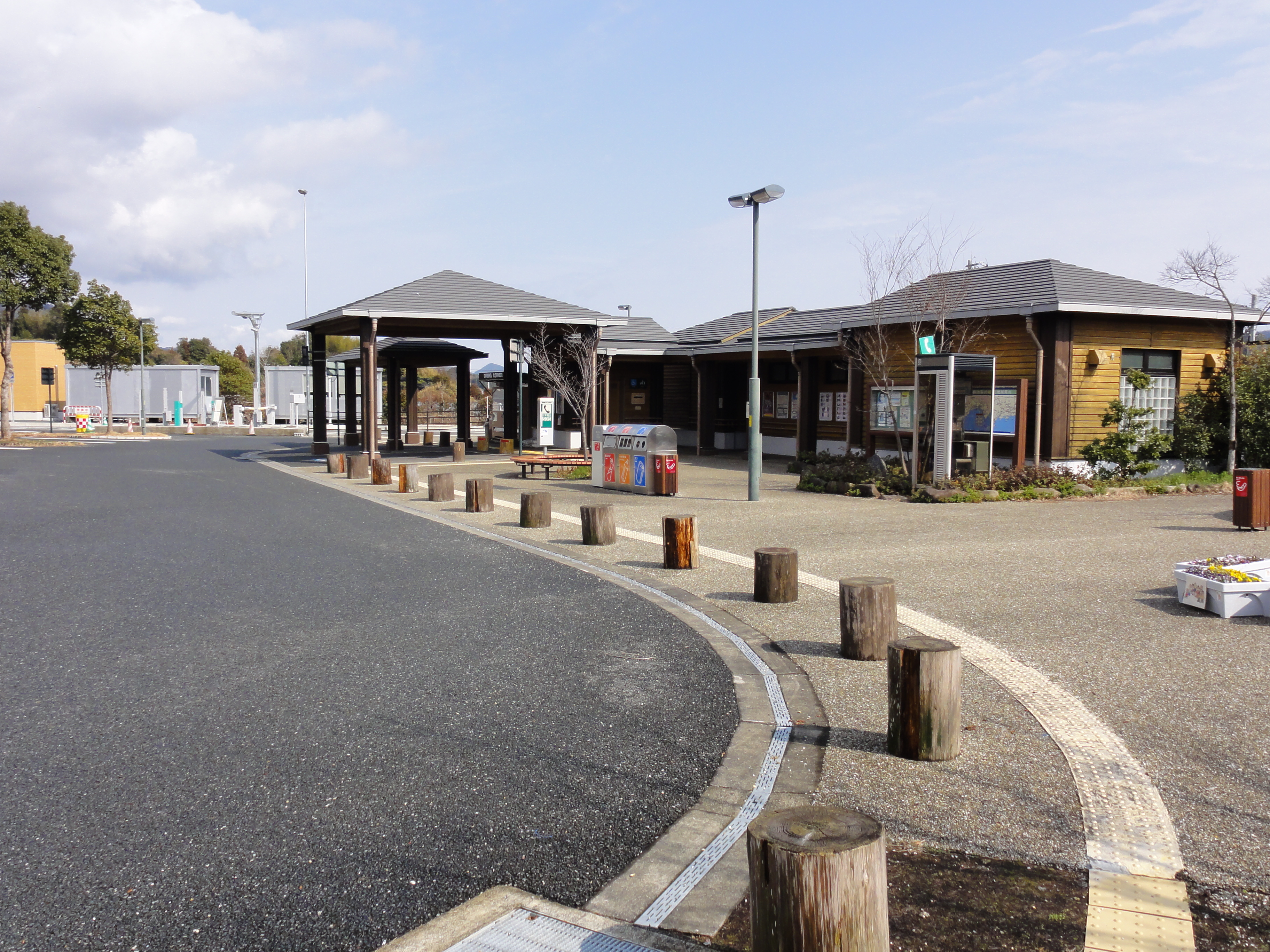 Tosa Parking Area,Kochi pref.,Japan